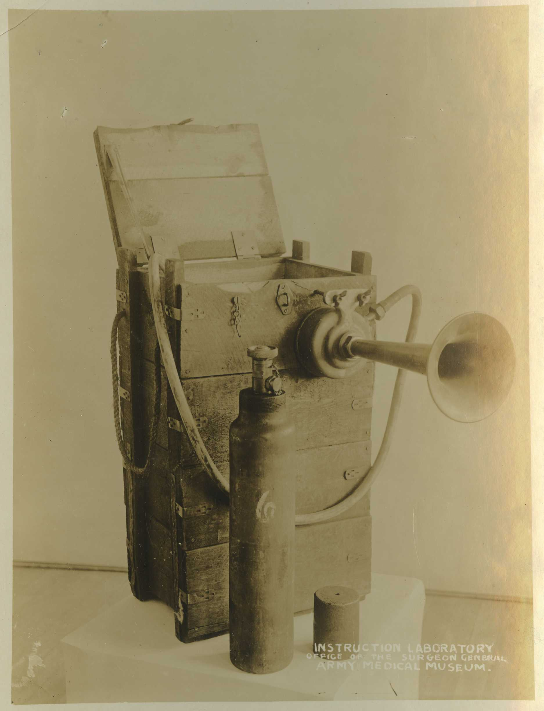 Poison gas, gas thrower. [Gases, Asphyxiating and poisonous. Or Chemical warfare.] World War 1.